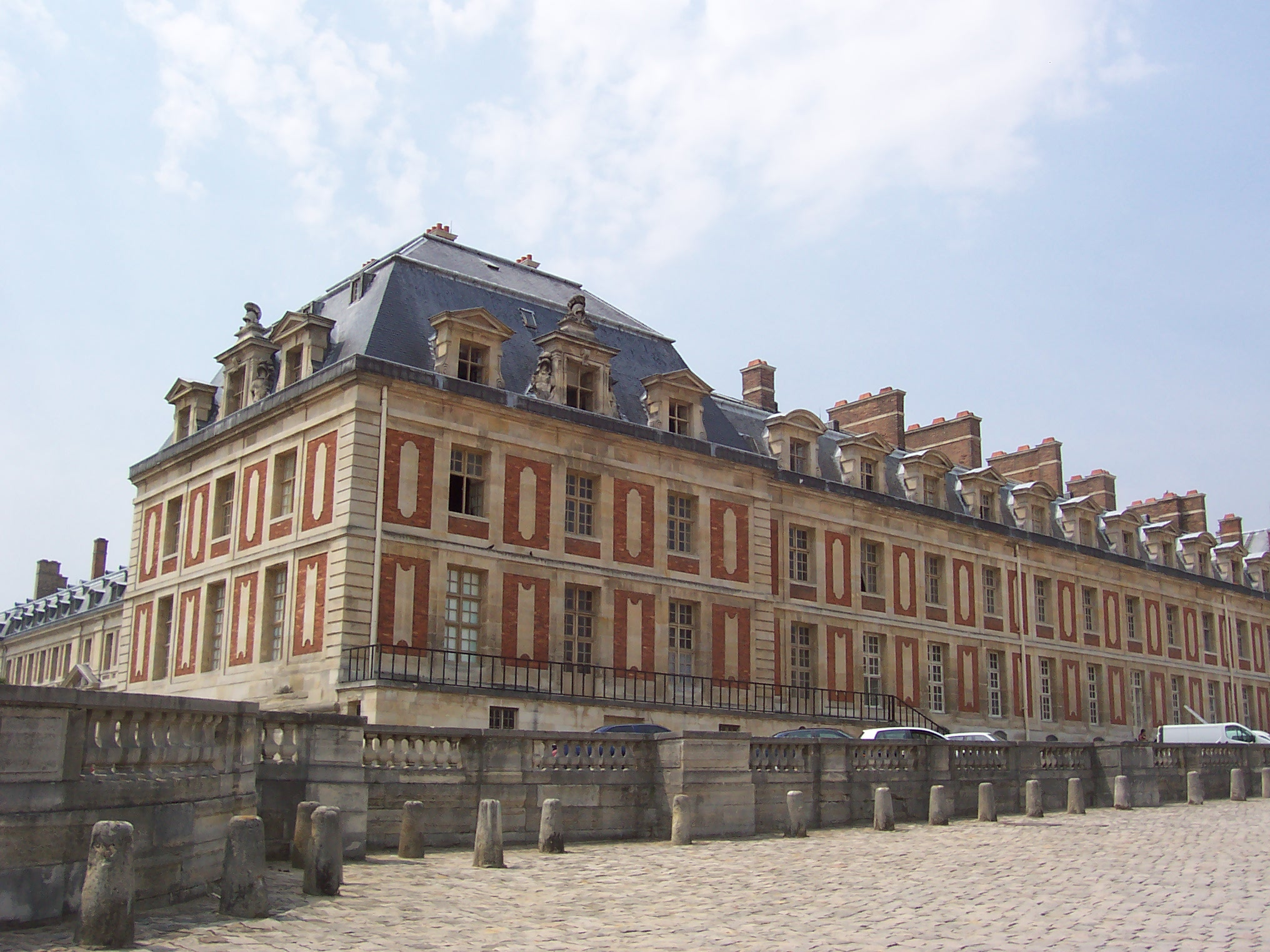 The Château de Versailles (or in English, the Palace of Versailles) is a royal château located in Versailles, 15 km from Paris. For more pictures see Category:Château de Versailles